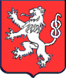 Coat of arms of Lodron's family